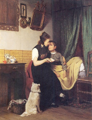 The Story